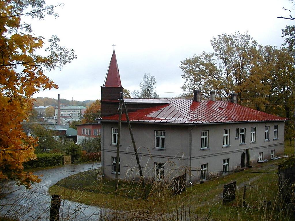 Baptist church in Smiltene, Latvia